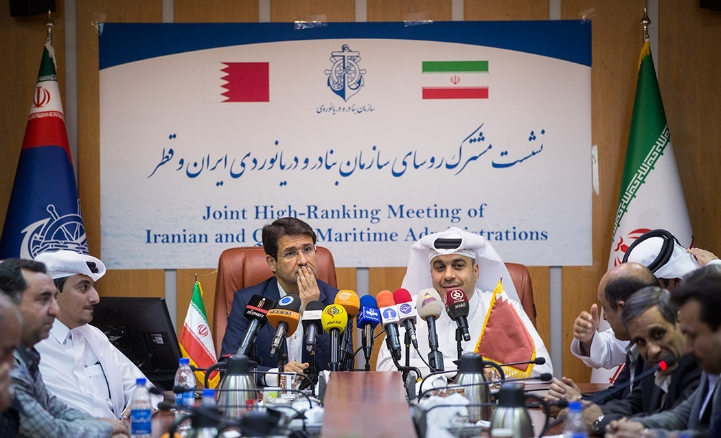 Joint High-Ranking Meeting of Iranian and Qatari Maritime Administration. see full gallery